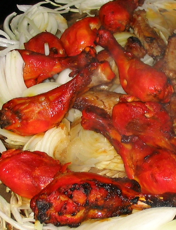 Tandoori chicken, an Indian dish.